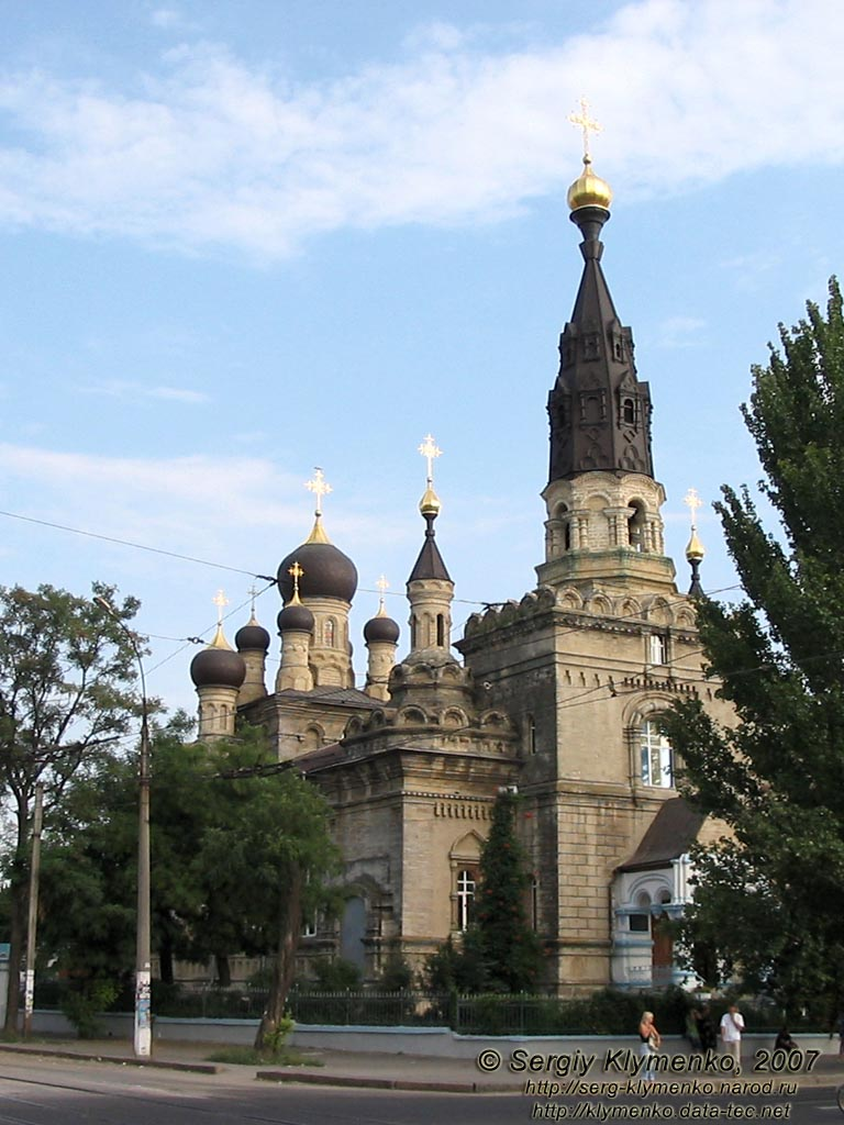 Temple of Kasperovskaya Mother of God